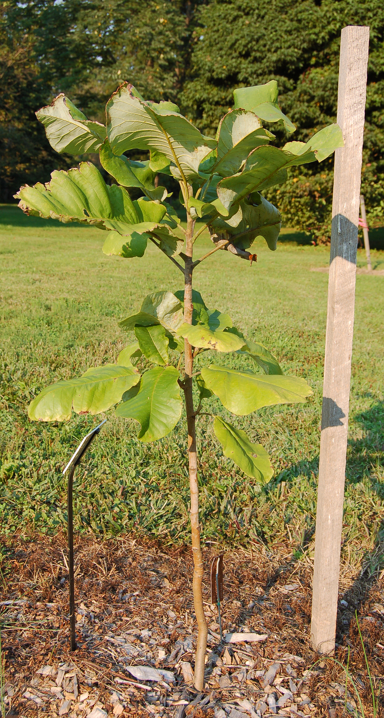 Photograph of the Bigleaf Magnoliaen (Magnolia macrophylla en ). Photo taken at the Tyler Arboretum where it was identified.